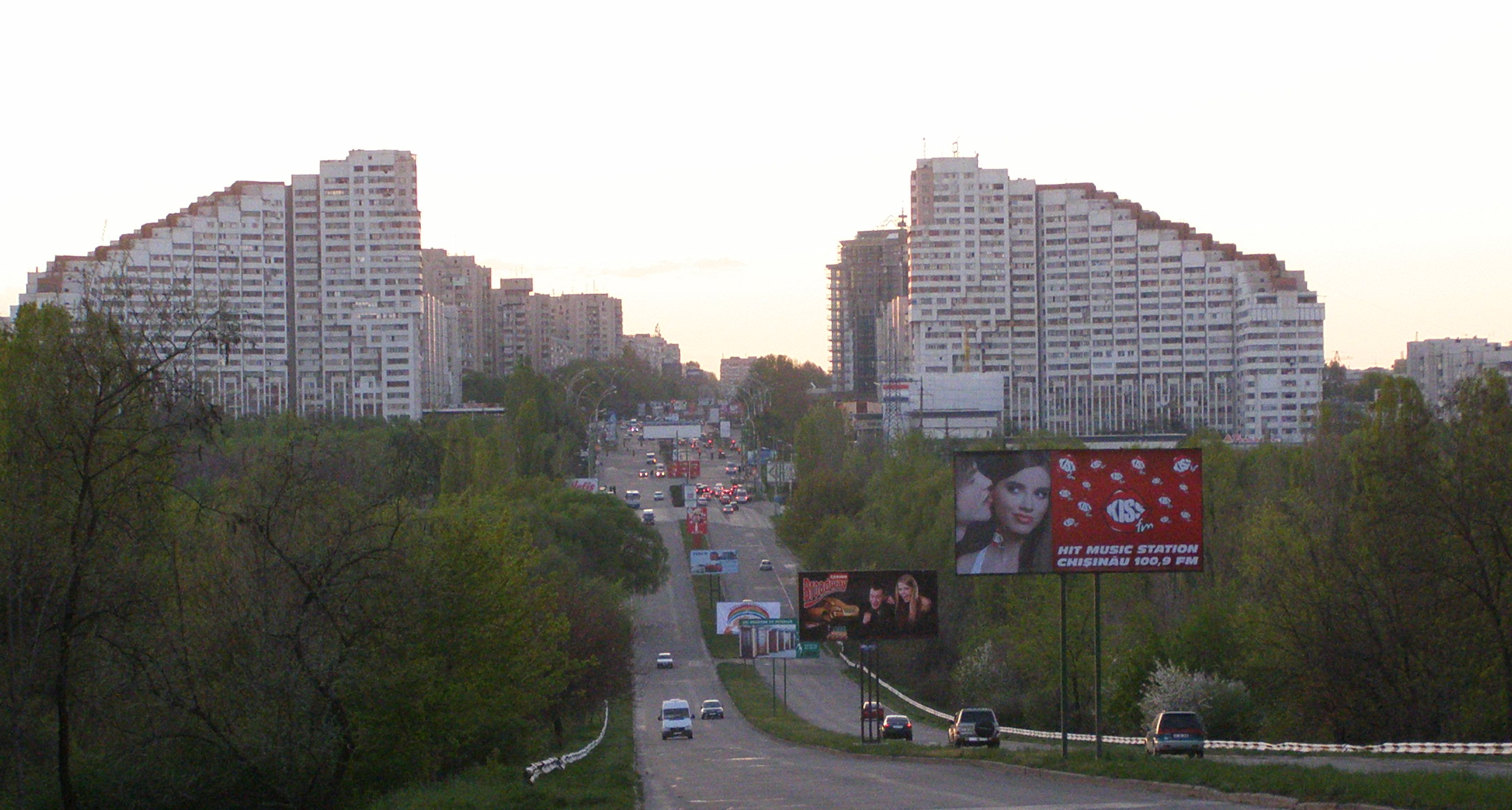 Gates of Chisinau, Moldova, entering into Botanica district of Chisinau